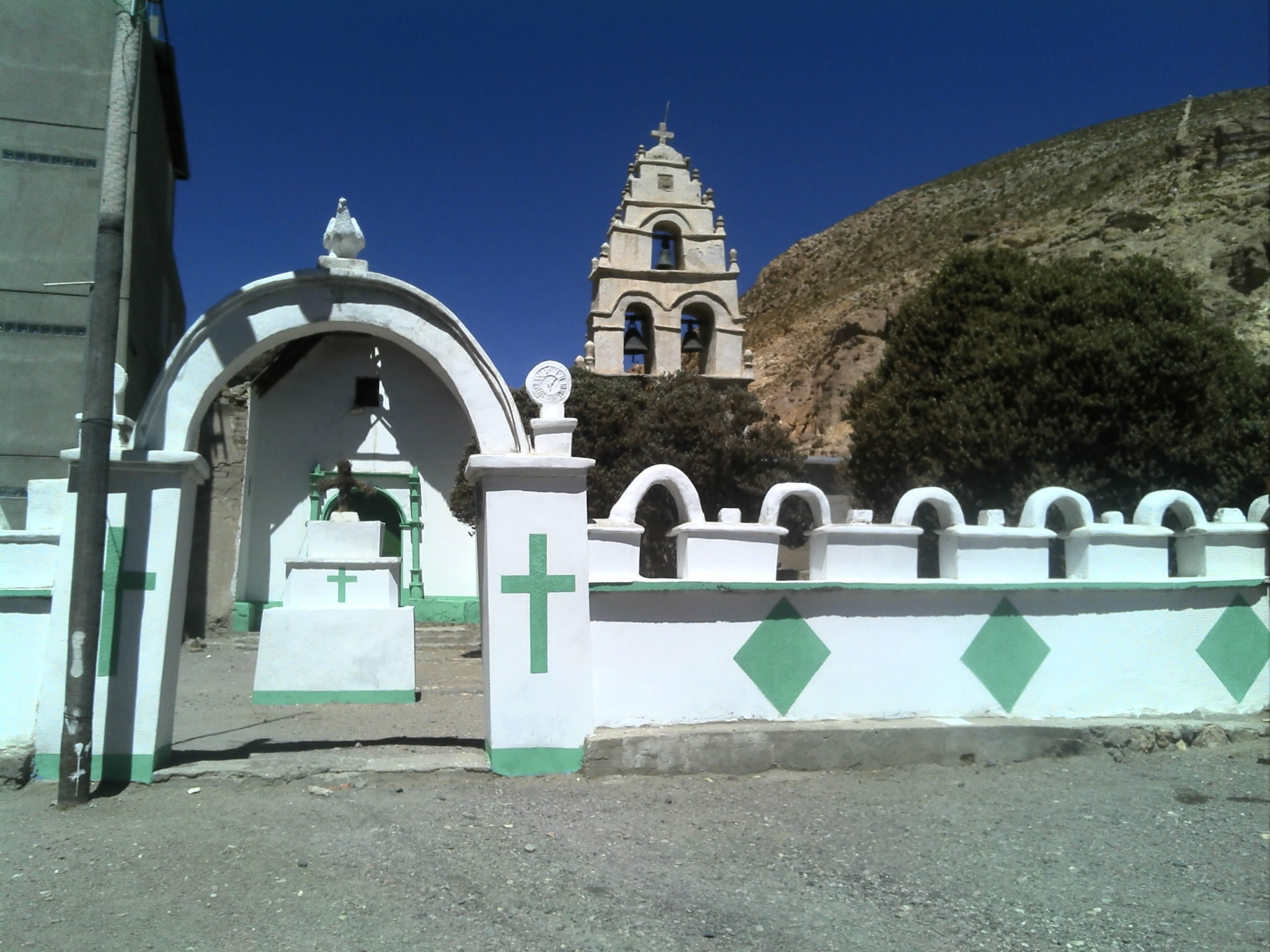 IGLESIA COLONIAL DE TODO SANTOS